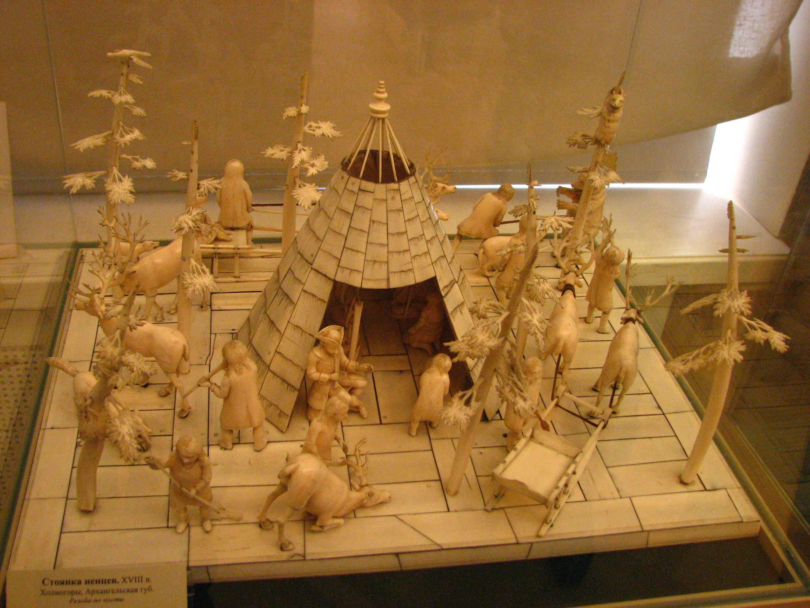 Russian Museum, a collection of folk art. The Nenets camp (desktop model). Bone carving, Kholmogory, Arkhangelsk governorate, XVIII century.